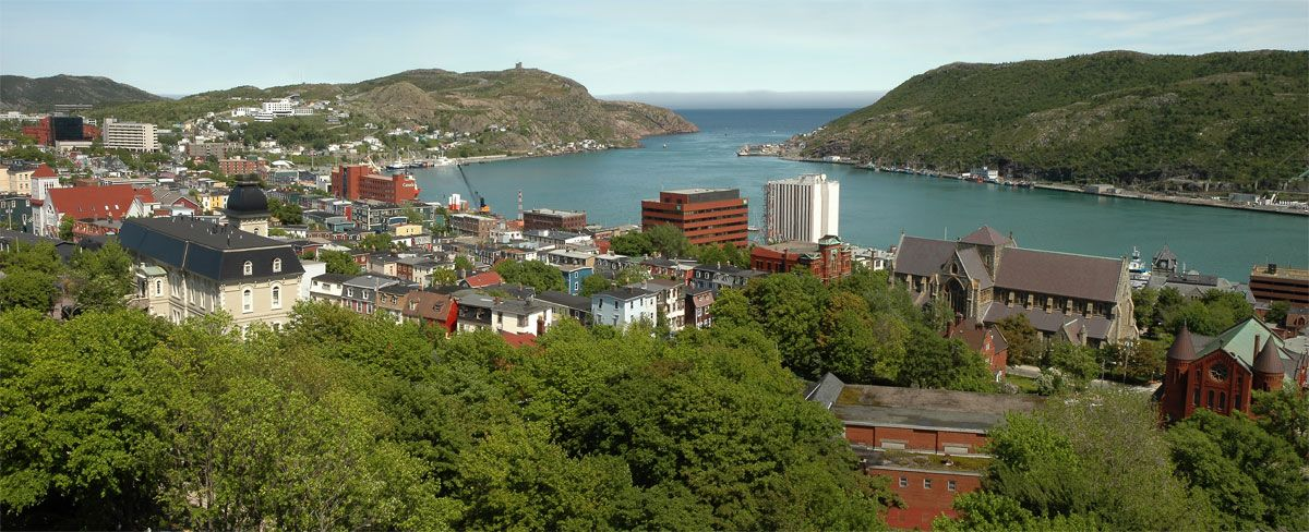 veiw looking east of St. John's, Newfoundland